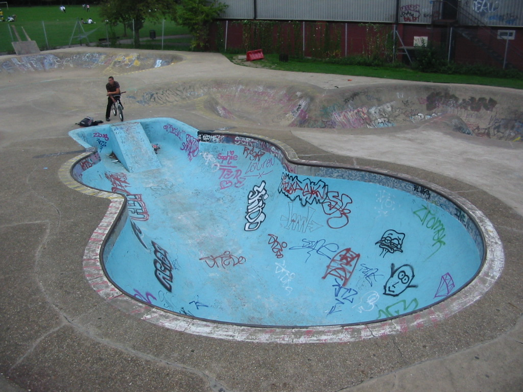 Photo of the pool at Harrow Skatepark weeks before its supposed destruction.